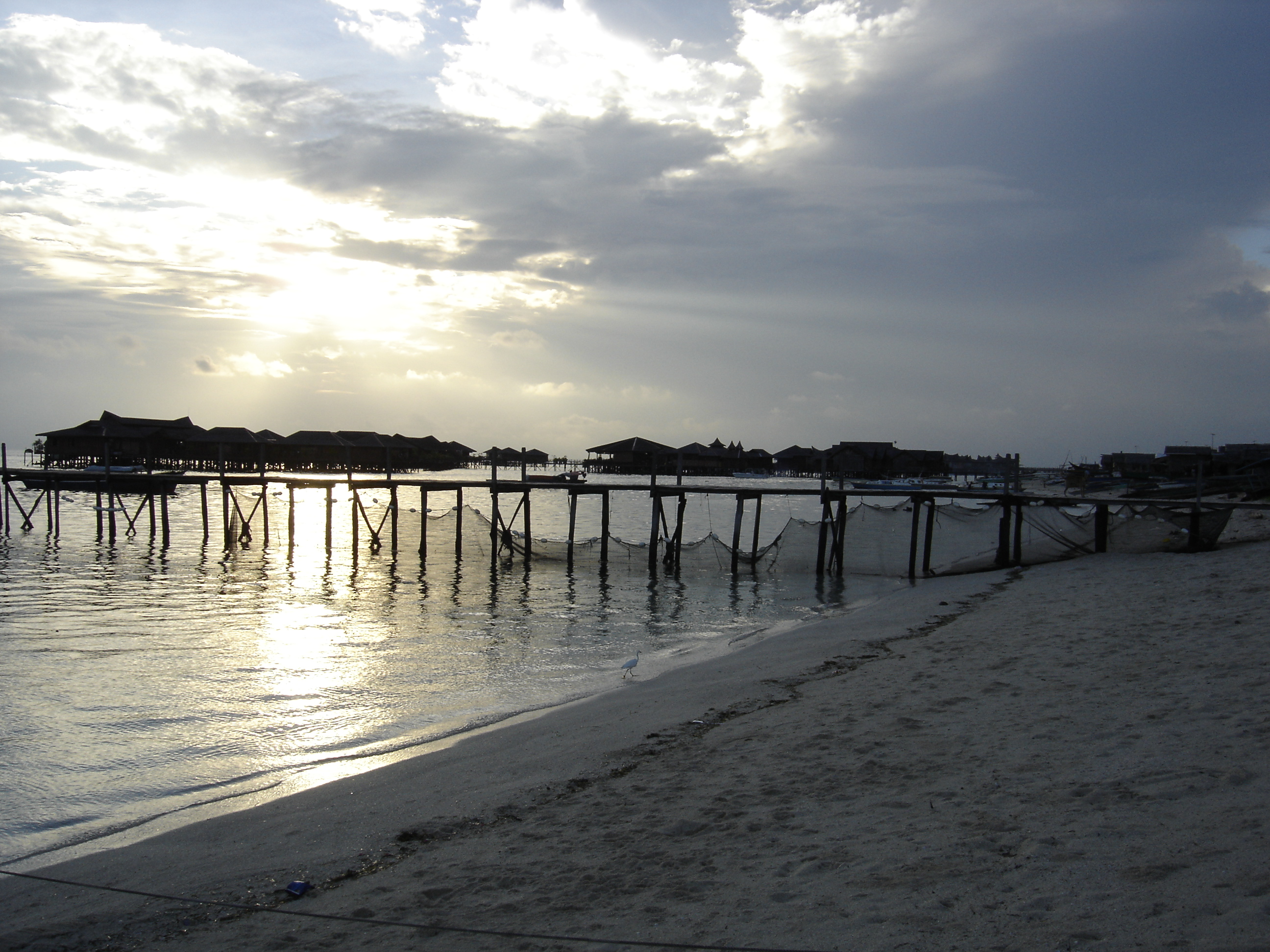 Mabul Island - Sabah - Borneo